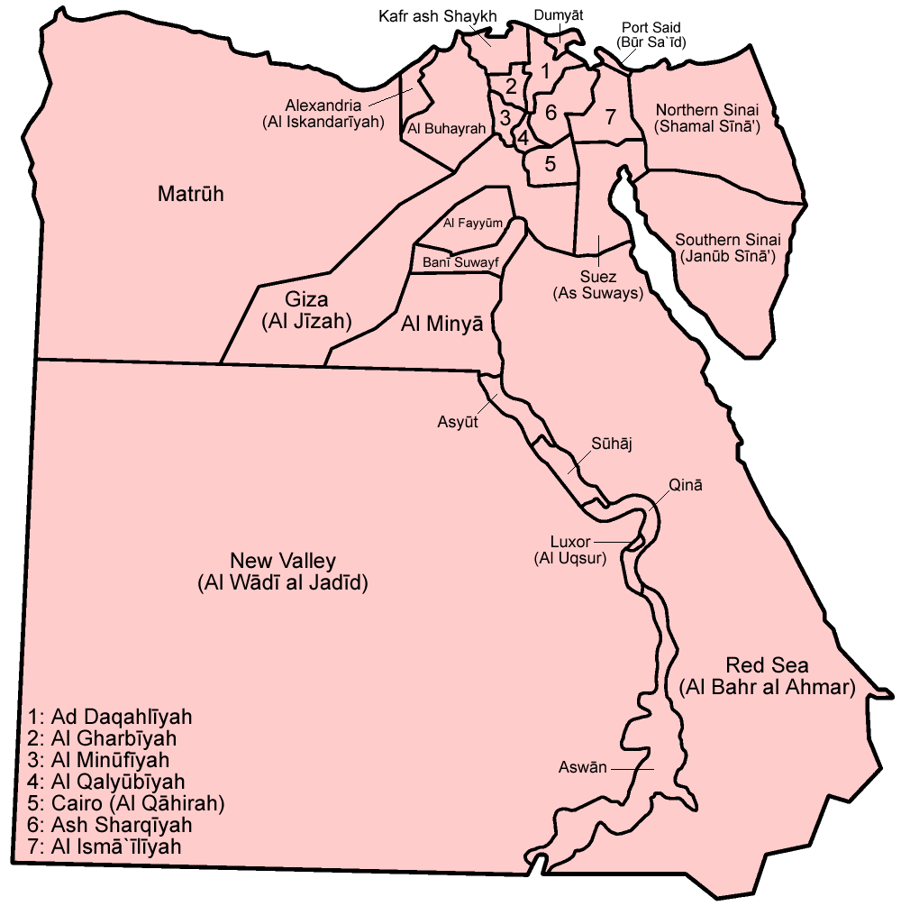 Map of the governorates of Egypt in English. Made by User:Golbez.